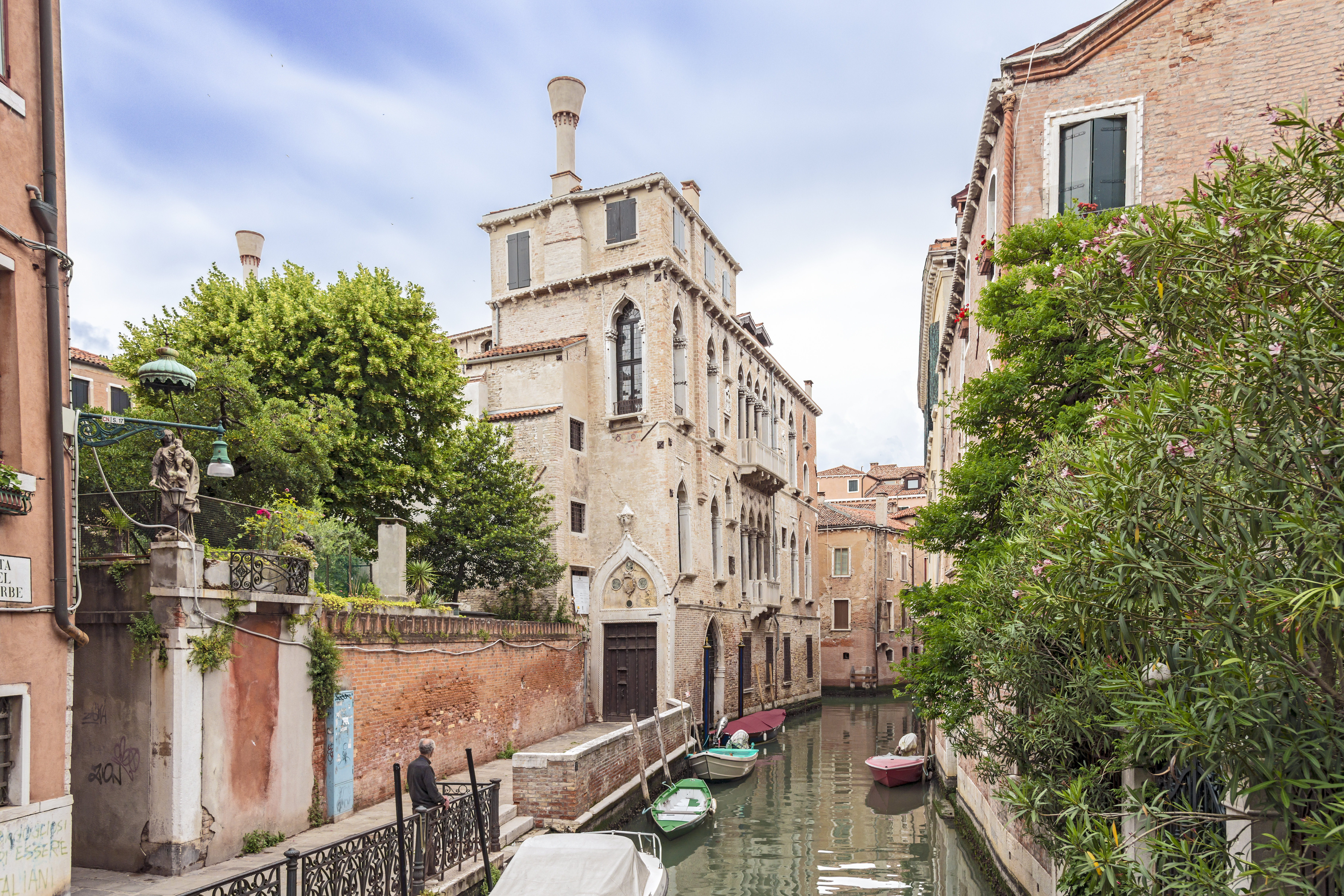 Place Soranzo Van Axel, in Venice, view from Ponte de le erbe.